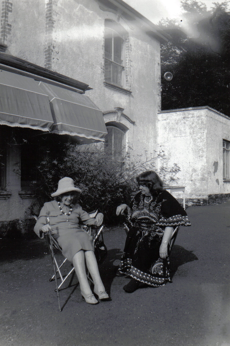 Jean Rhys the writer